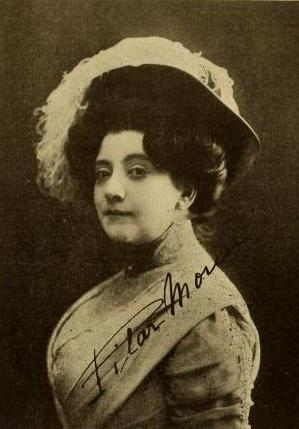 A middle-aged white woman wearing a large plumed hat and a corseted dress with a high collar. Her dark hair is in an updo. She is not smiling, but looking at the camera sidelong.